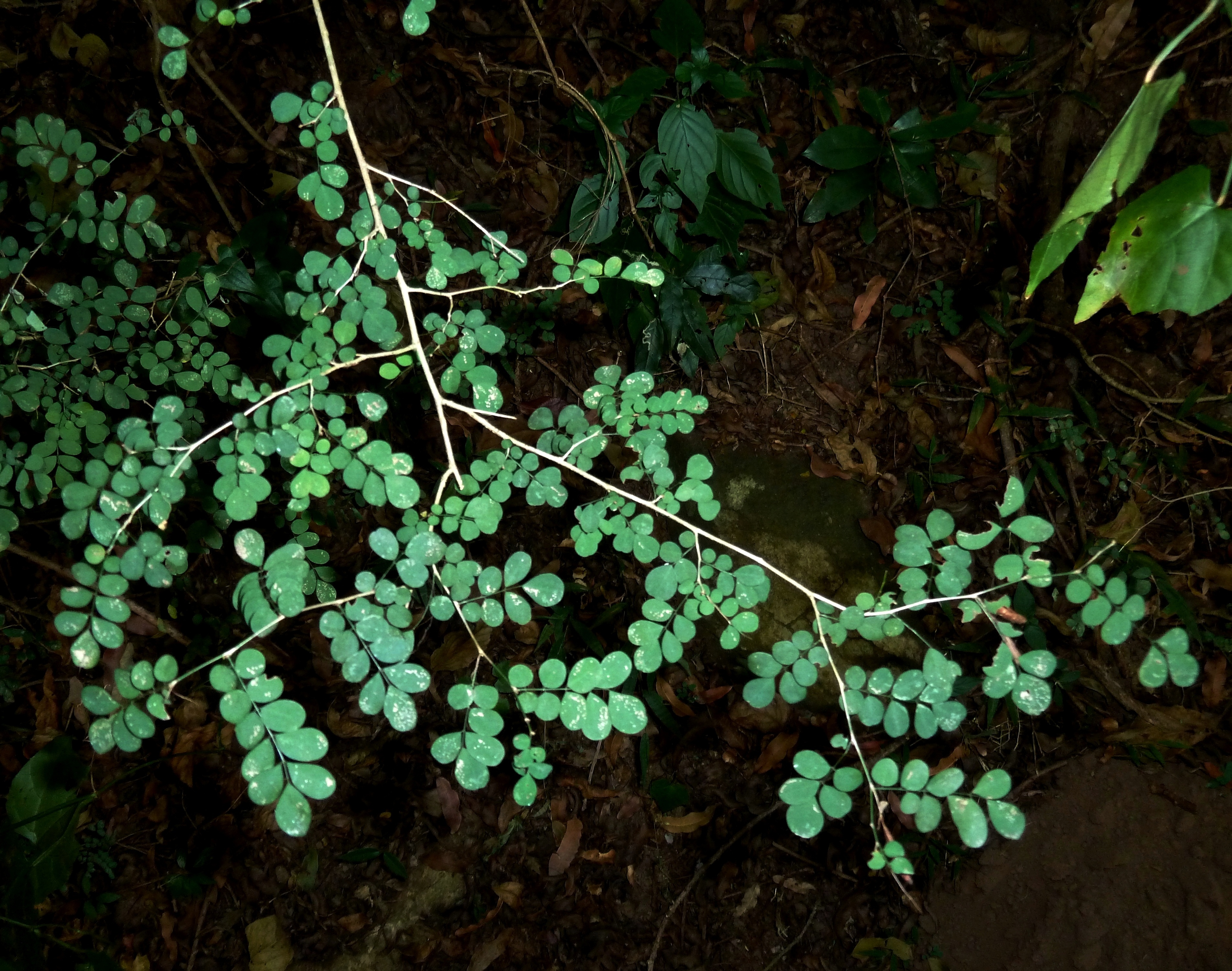 Foliage of a Forest indigo in Krantzkloof Nature Reserve, KwaZulu-Natal. Each leaf carries 7 to 11 closely-spaced, obovate (teardrop-shaped) leaflets, that are held in a fairly flat plane, or stepped above one another.